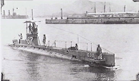 AWM caption : "VALETTA HARBOUR, MALTA. c. 1916. HM SUBMARINE C 37 IN THE HARBOUR. NOTE THE AWNING ABOVE THE BRIDGE, THE PERISCOPE AND THE DIVING PLANES."